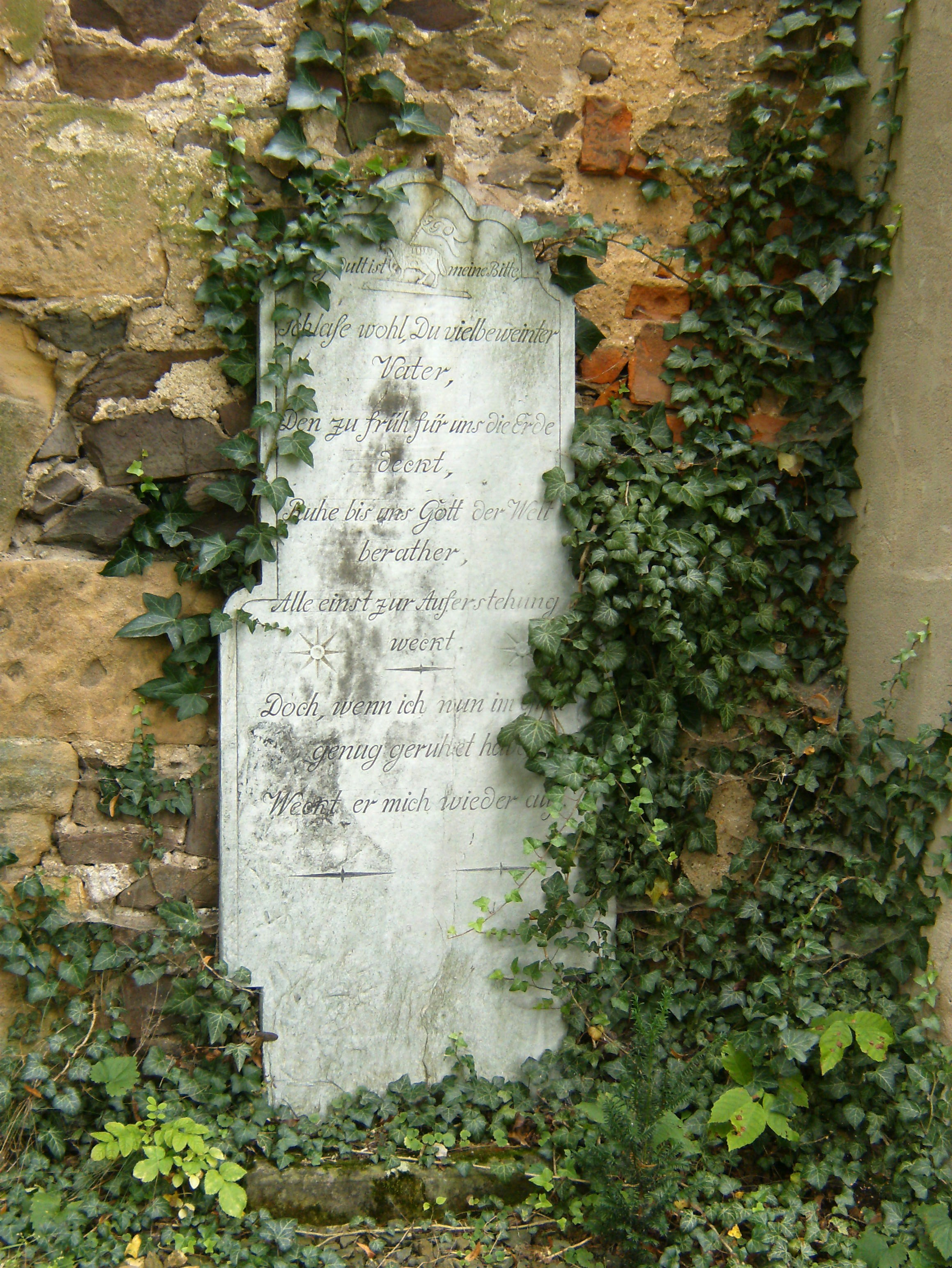 Taubenpreskeln, ancient graveyard memorial.